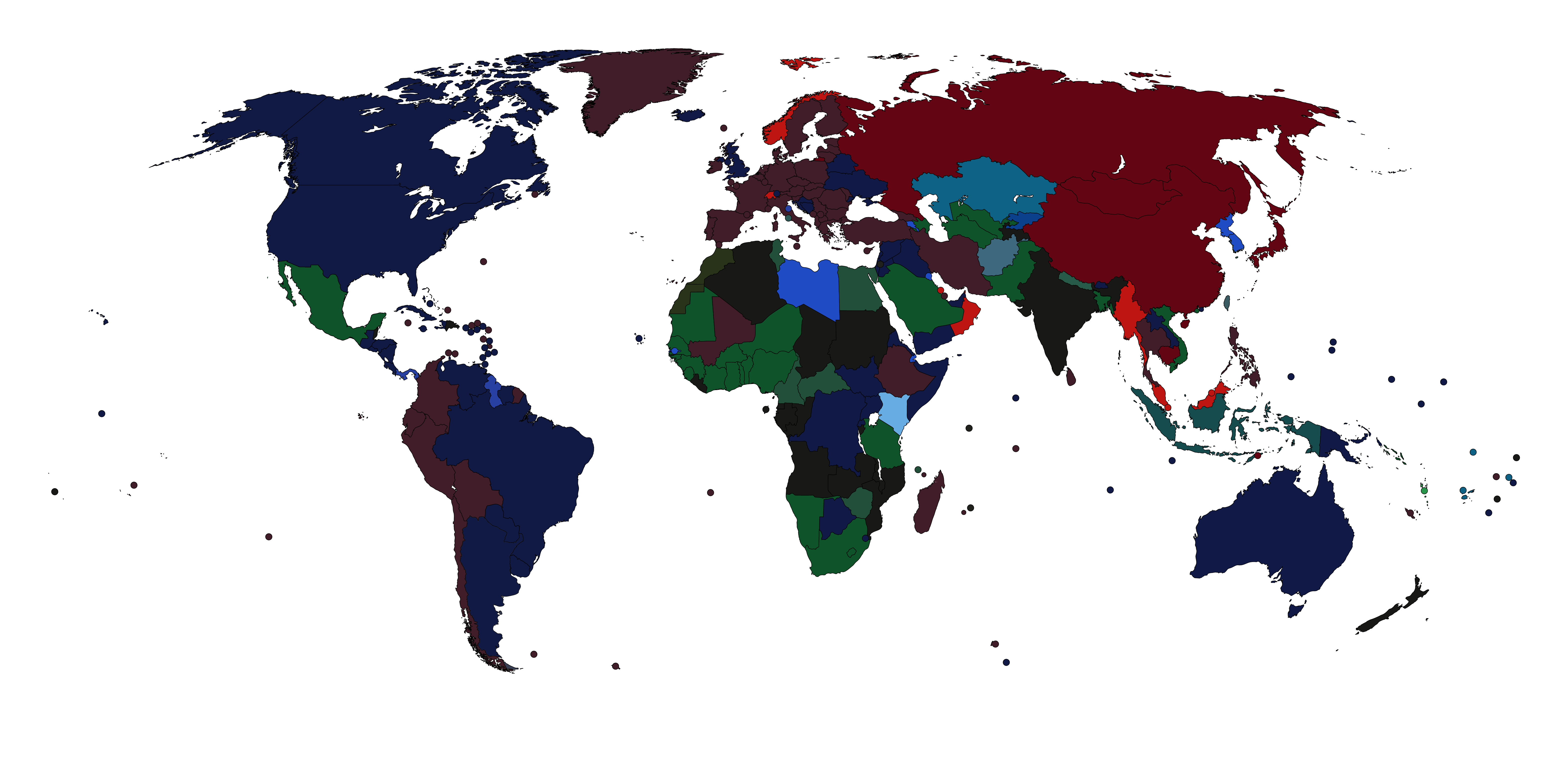 Passport design world map